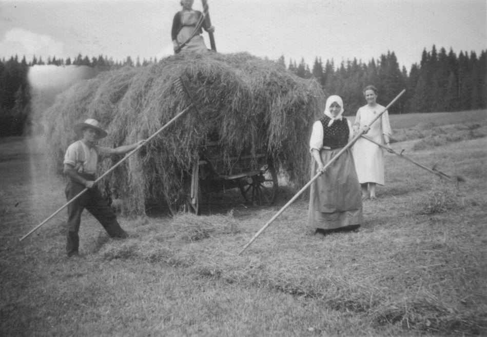 Harvesting hay in the Black Forest.